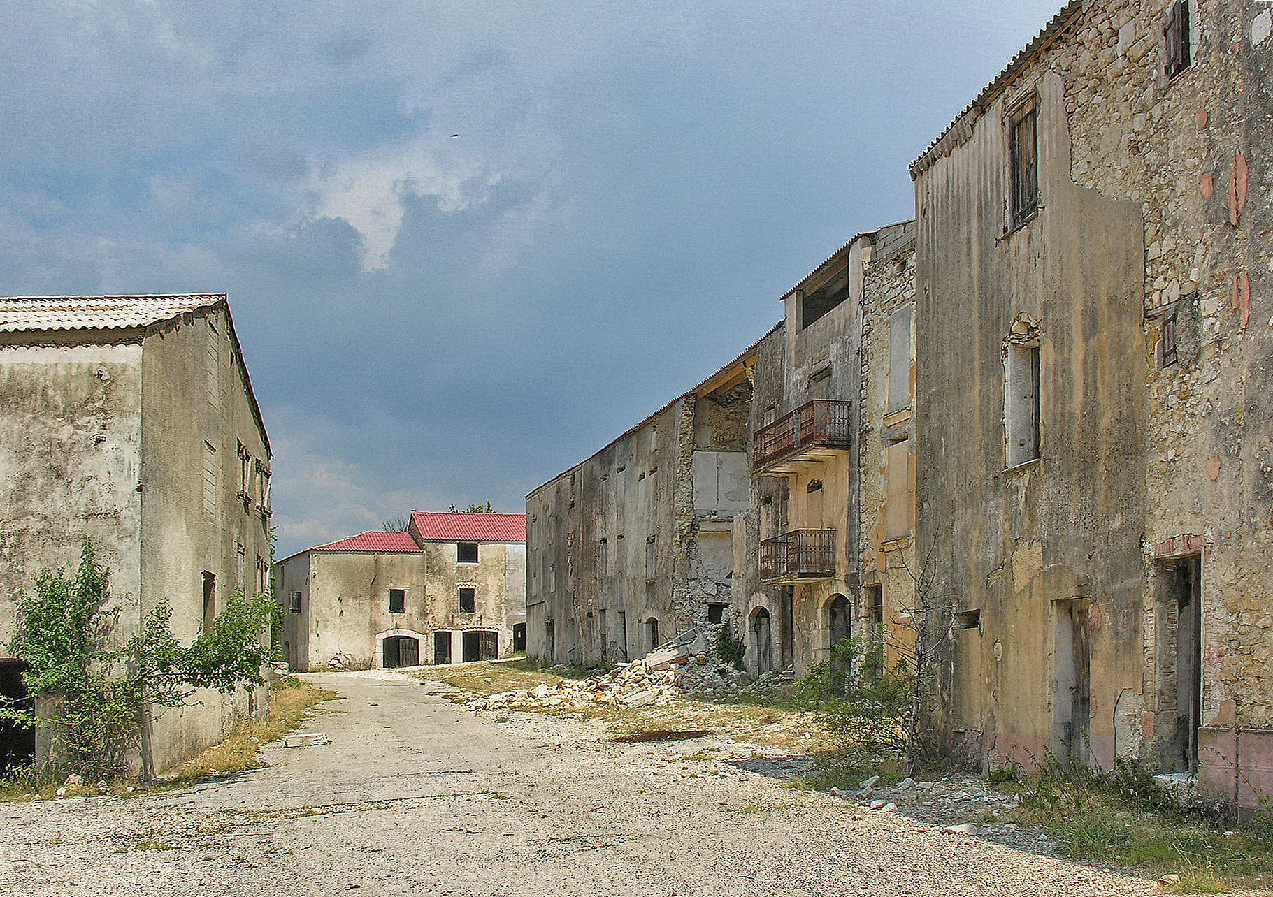 Military camp of Canjuers: Brovès's main street